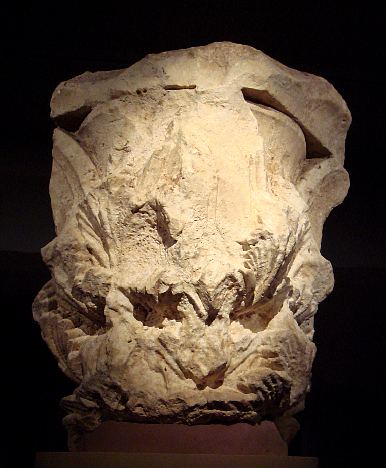 Hellenistic capital found in the city of Balkh. Musée Guimet. Personal photograph 2006.